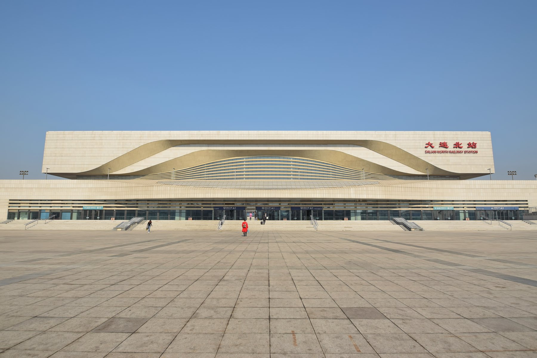 South Square of Dalian Bei (North) Railway Station